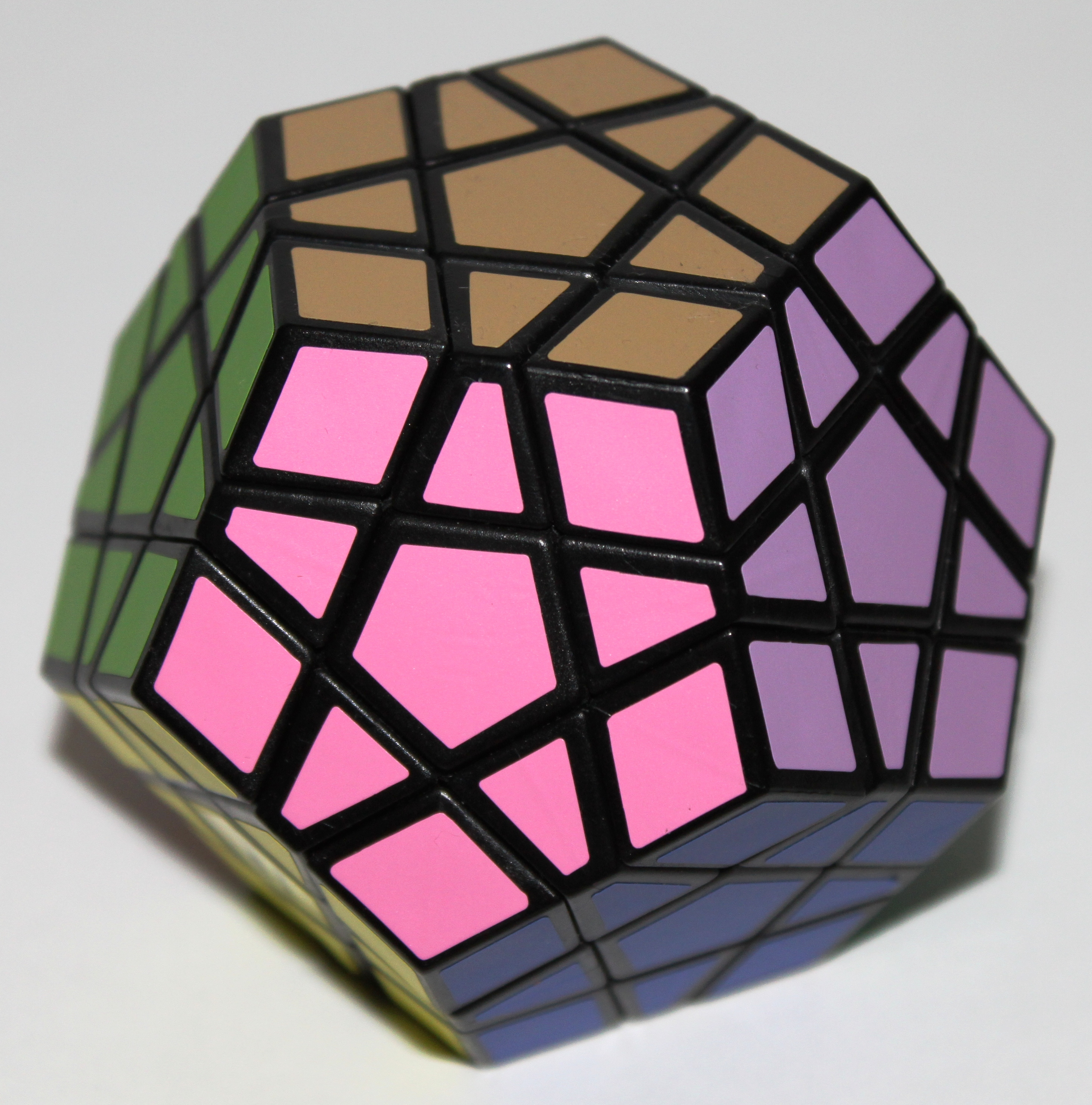 This is a photo of a "Rubiks cube"-like sequential move puzzle.